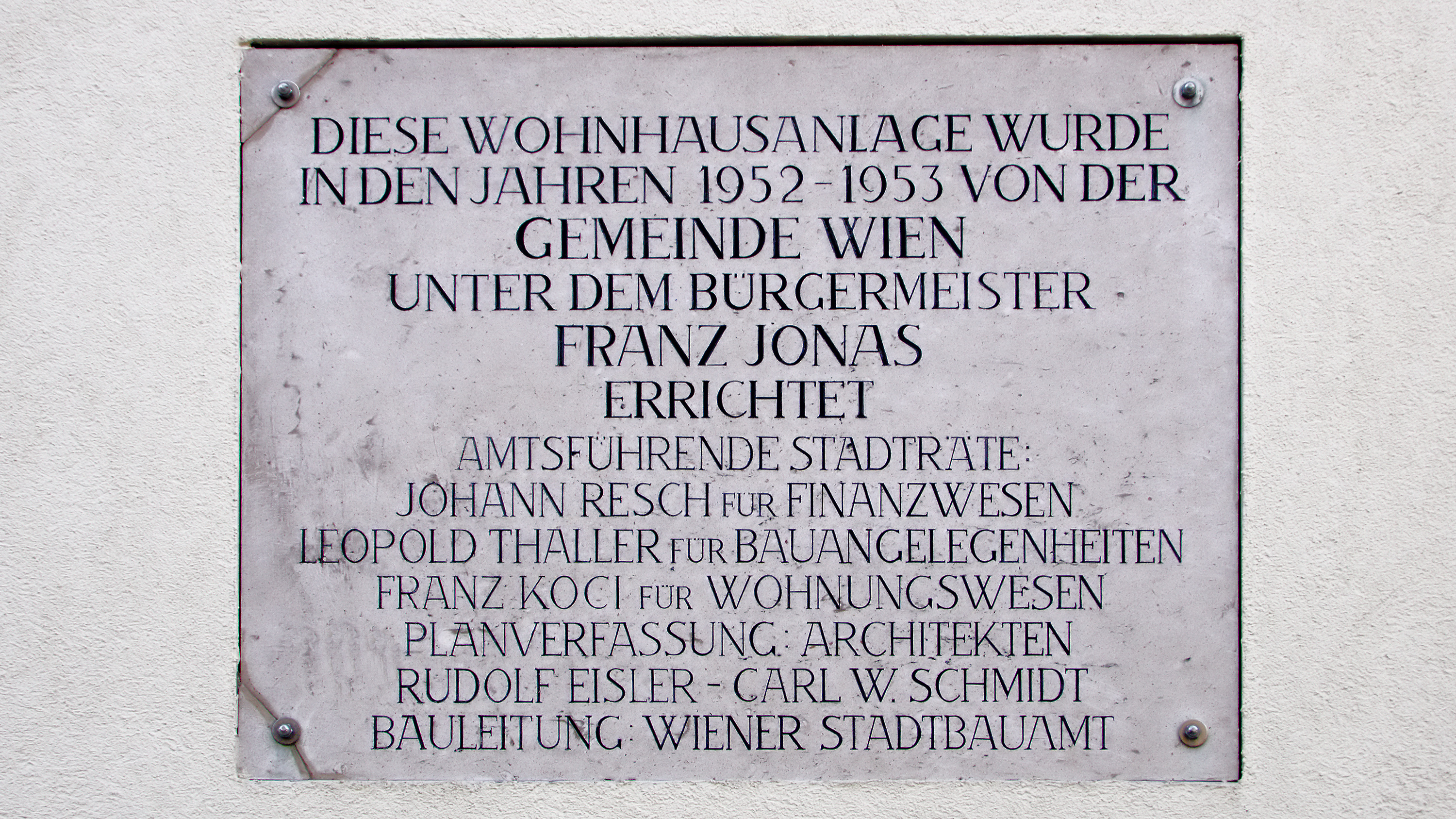 Residential buildings Julius-Deutsch-Hof in Vienna Döbling